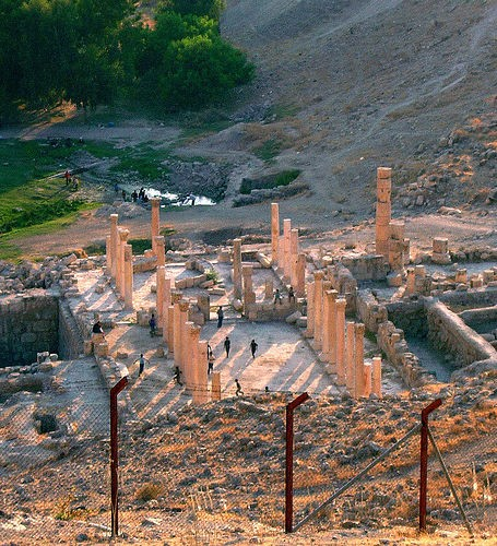 Taken by Nick Fraser in the late summer of 2004. Children playing in the ancient ruins of Pella.